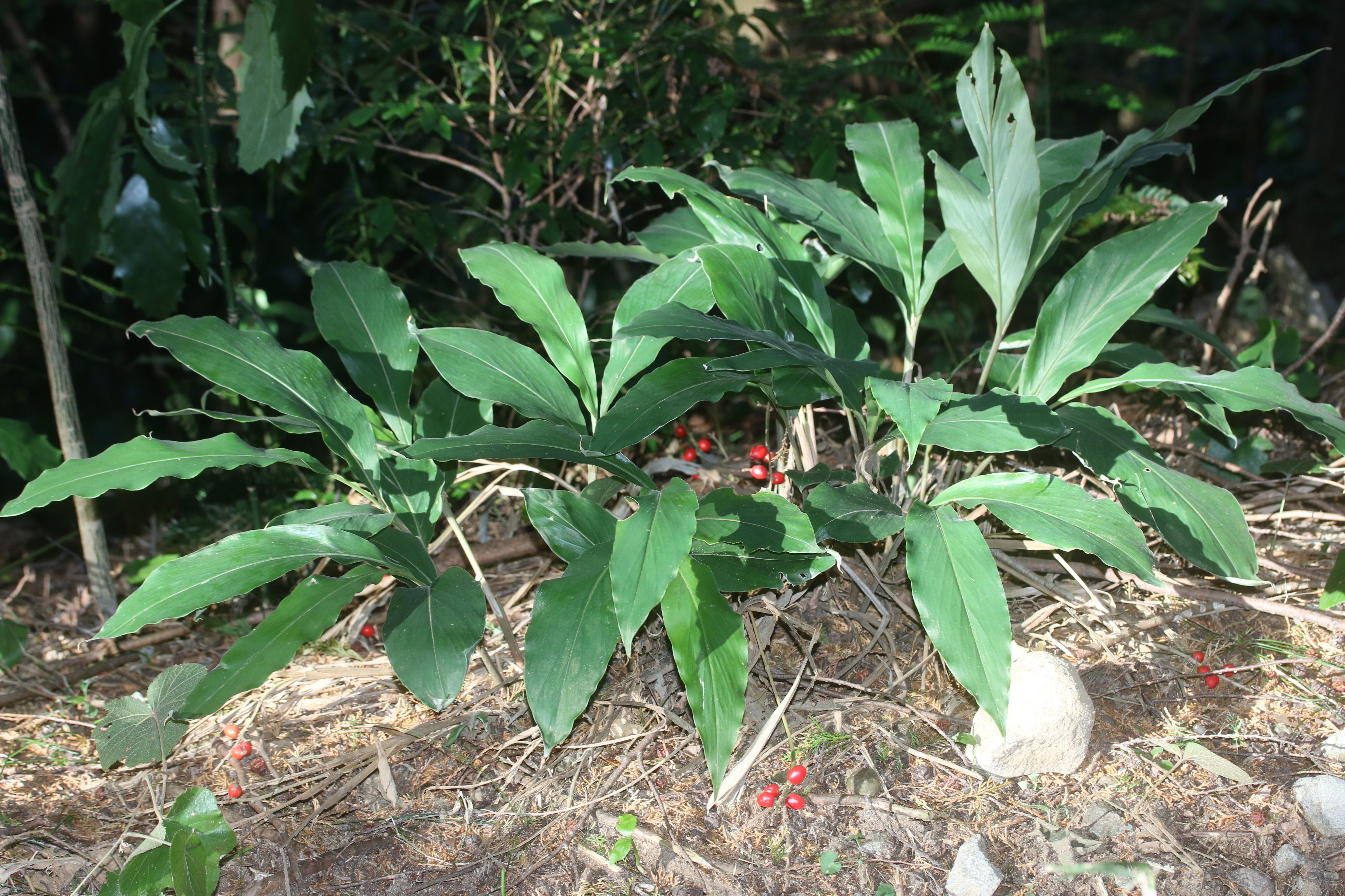 Alpinia japonica in Mount Hamaishi, Shimizu-ku, Shizuoka City, Shizukoa Prefecture, Japan.